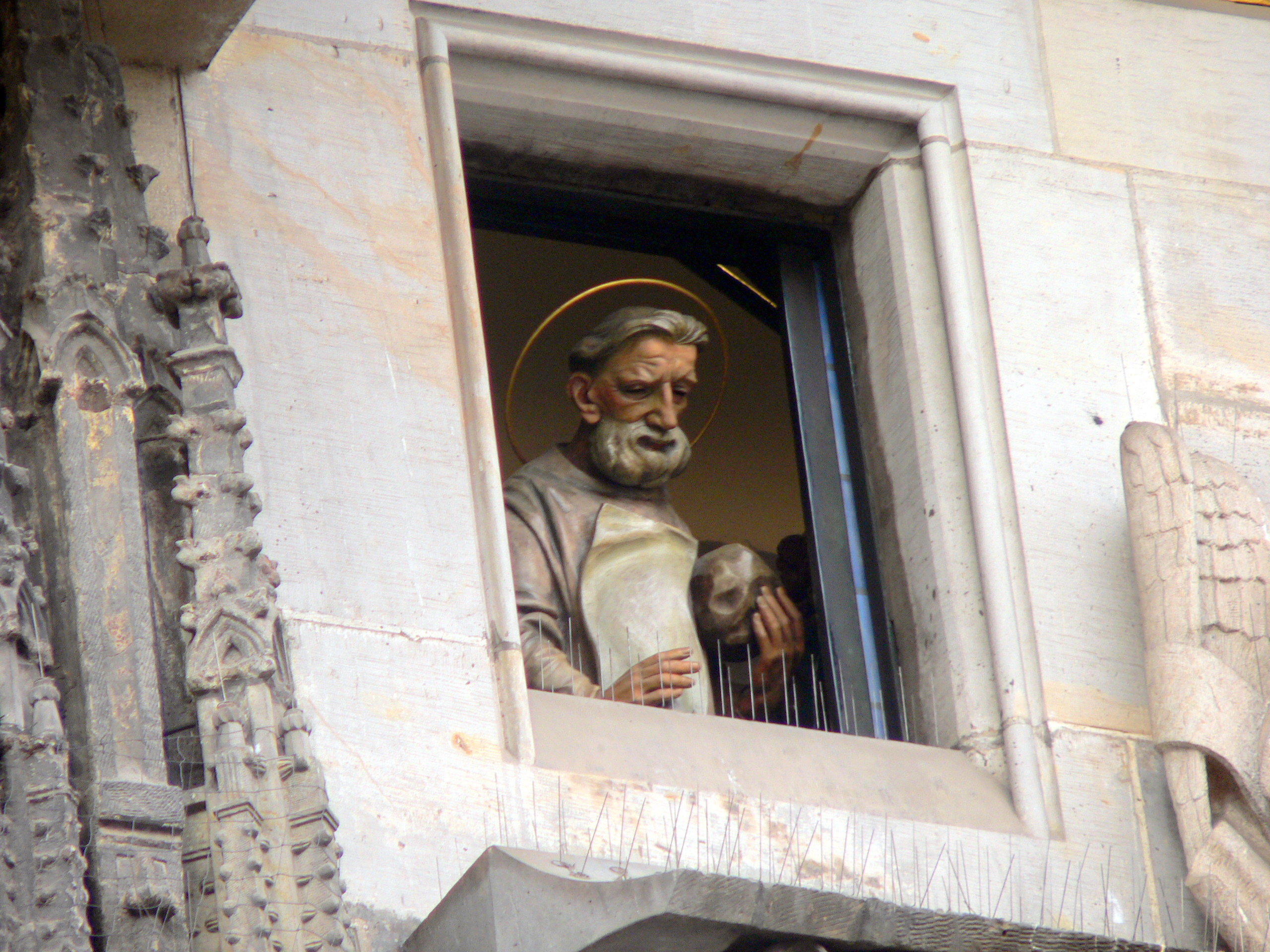 Saint Barnabas on the Prague Astronomical Clock